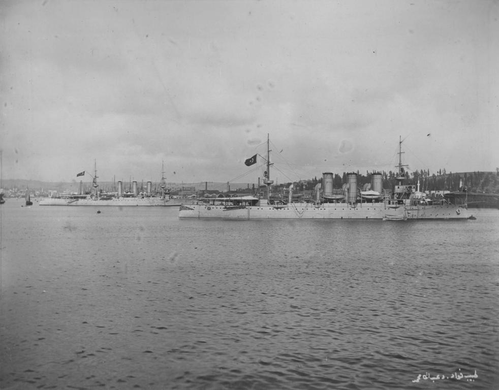 Ottoman cruisers Medjidie (Mecidiye, right) and Hamidie (Hamidiye, left) at Golden Horn in 1905.